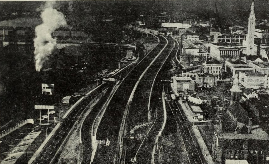 An aerial photograph of Interstate 91's Springfield, Massachusetts viaduct, shortly prior to the completion of the highway in Massachusetts. Note the crane in the background constructing Tower Square, which was completed in 1970, as well as St. Joseph's Church in the right-foreground. The viaduct would remove the city from its recreational and economic hub on the Connecticut River.